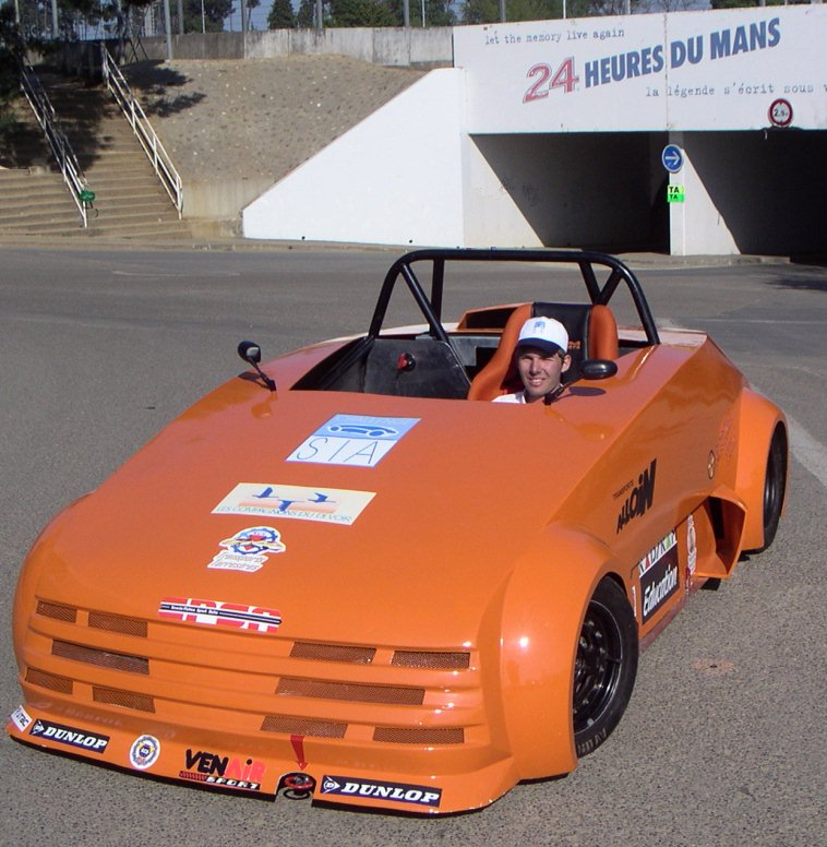 Razza vehicule